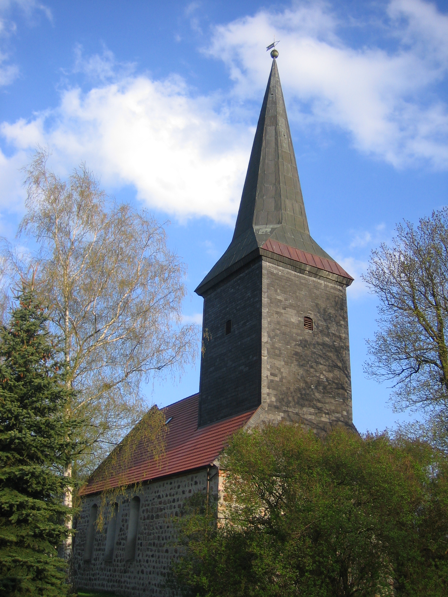 Church of Protzen, Fehrbellin municipality, Ostprignitz-Ruppin district, Brandenburg state, Germany Object location52° 50′ 29.09″ N, 12° 43′ 19.9″ E